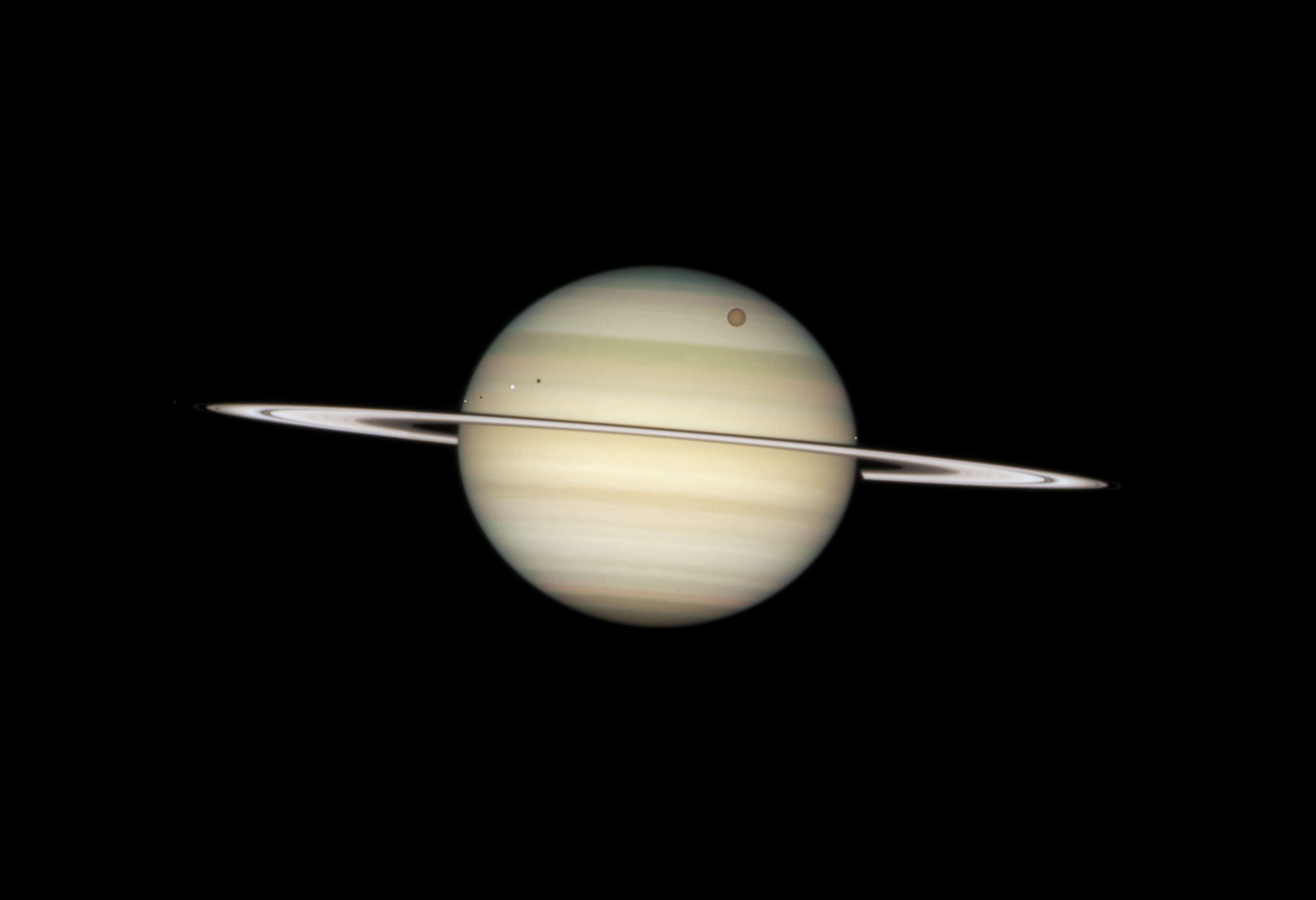 On 24 February 2009, the NASA/ESA Hubble Space Telescope captured a photo sequence of four moons of Saturn passing in front of their parent planet. The moons, from far left to right, are the white icy moons Enceladus and Dione, the large orange moon Titan, and icy Mimas. Due to the angle of the Sun, they are each preceded by their own shadow.